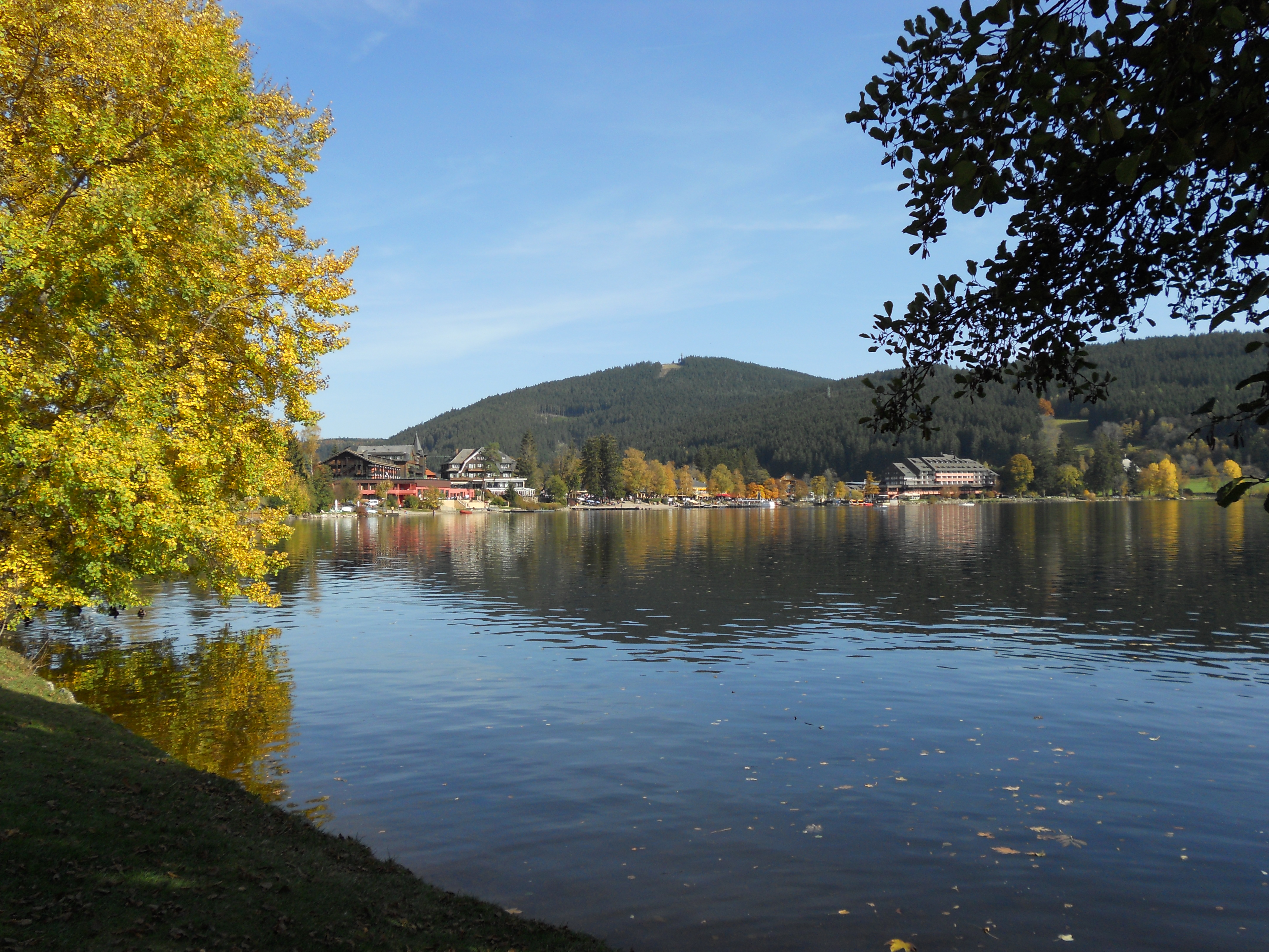 The picture shows the lake Titisee in "Titisee-Neustadt" in fall.